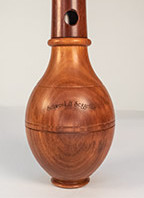 Bell for a clarinett like an oboe d’amore